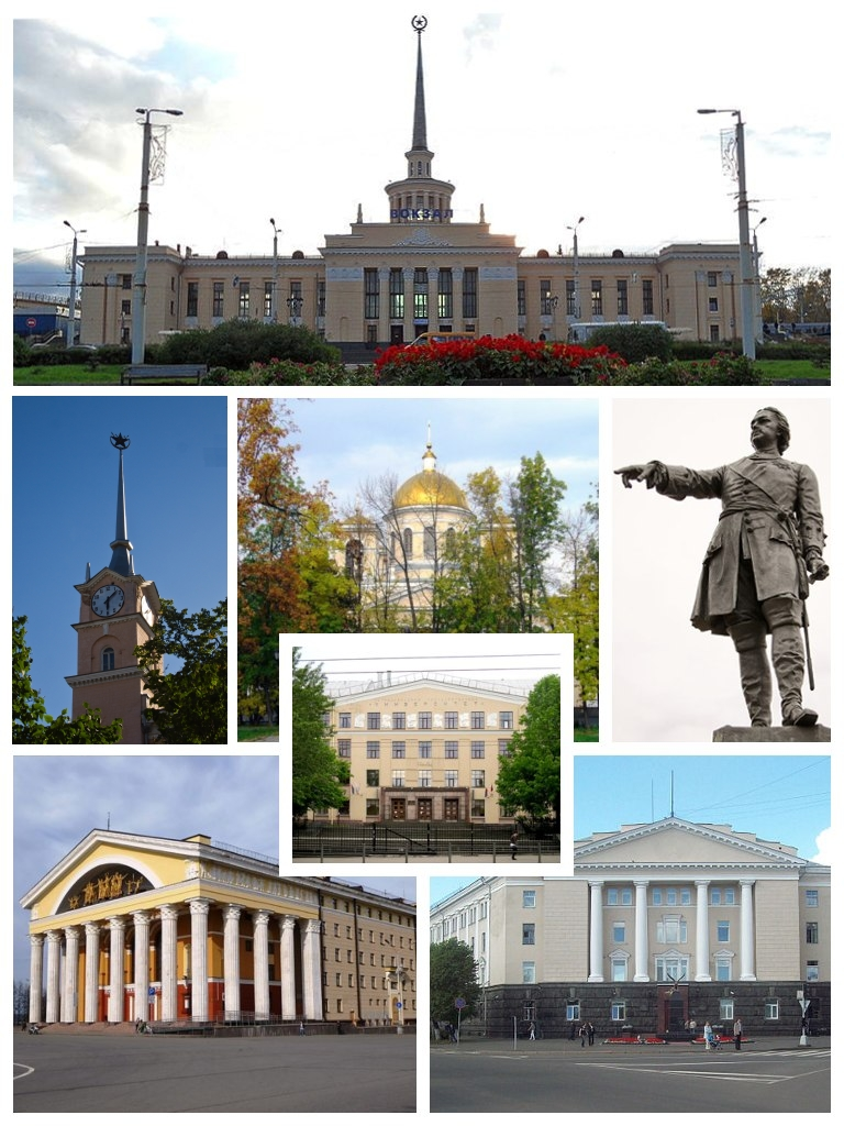 Petrozavodsk collage: The Petrozavodsk railway station Main Post Office Alexander Nevsky Cathedral Monument to Peter I Petrozavodsk State University Drama Theatre building Interior Ministry building on Karl Marx Avenue